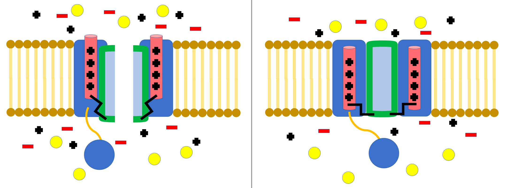 As the membrane depolarizes, the voltage differential is not sufficient to keep the channel in its open state, causing the channel to closes.